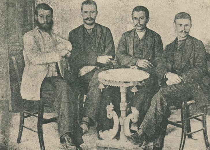 Todor Lazarov, Ivan_Panayotov, Kotse Gotchev and Mishe_Bachov.JPG